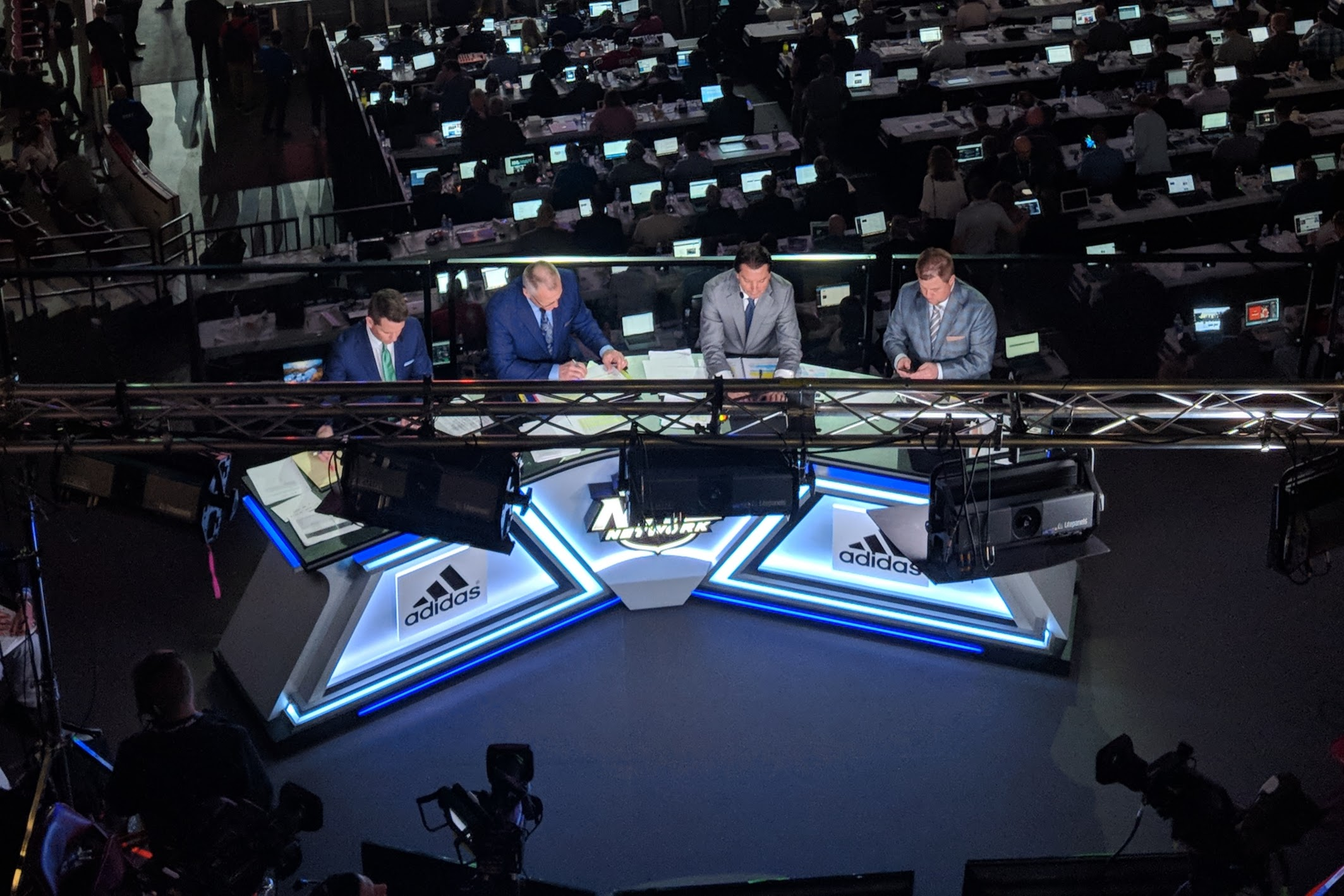 NHL Network broadcast booth during Day 2 of the 2019 NHL Entry Draft at Rogers Arena in Vancouver, British Columbia, Canada. June 2019.